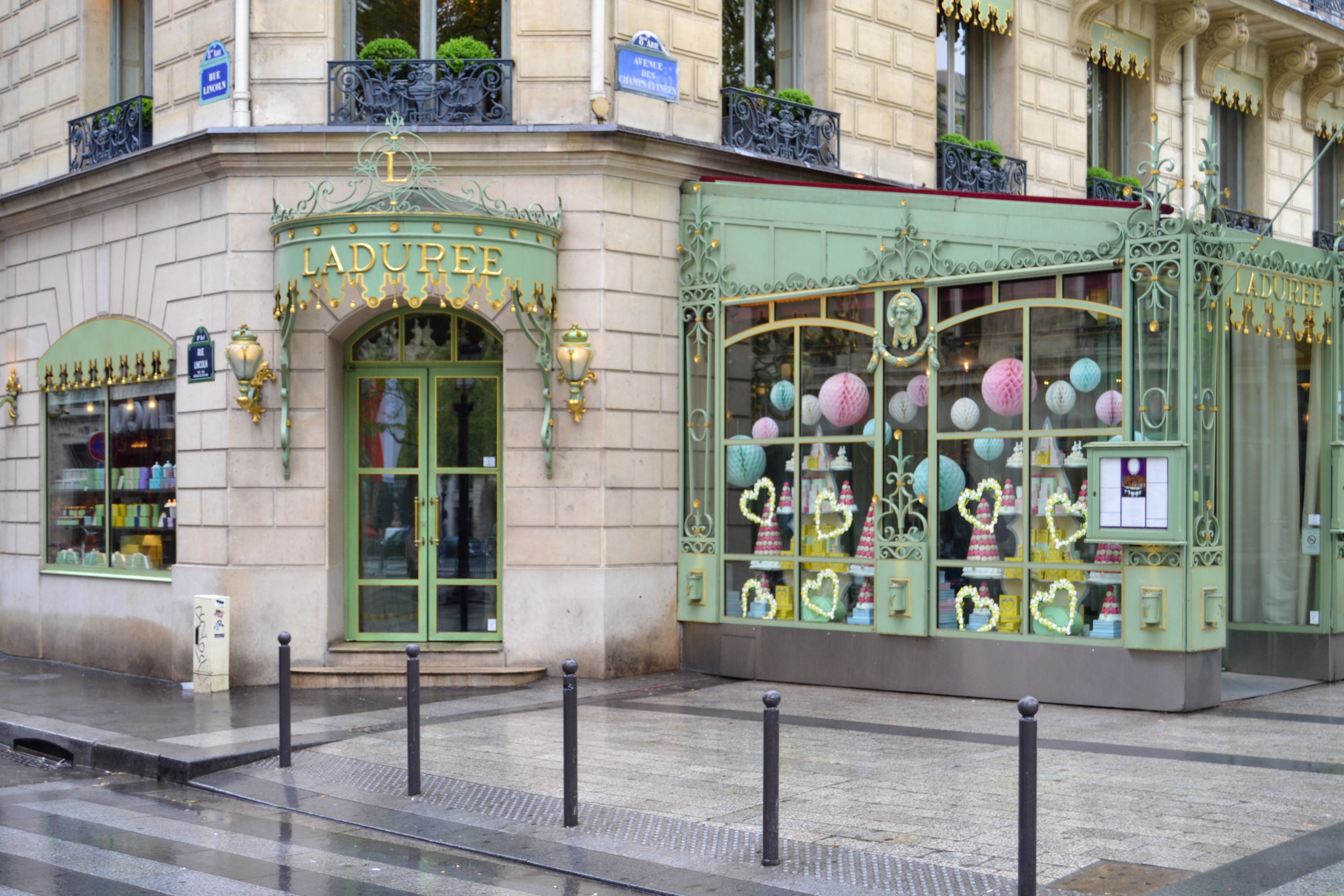 Ladurée, Champs-Elysées, Paris.